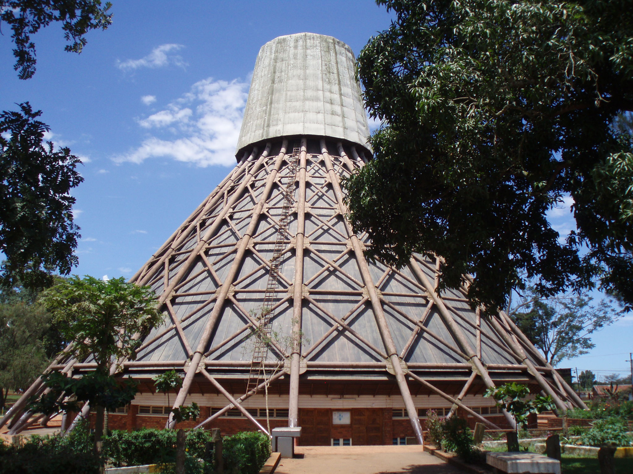 Namugongo Martyrs’ Shrine, Uganda (1973). Architect: Justus Dahinden, Zurich